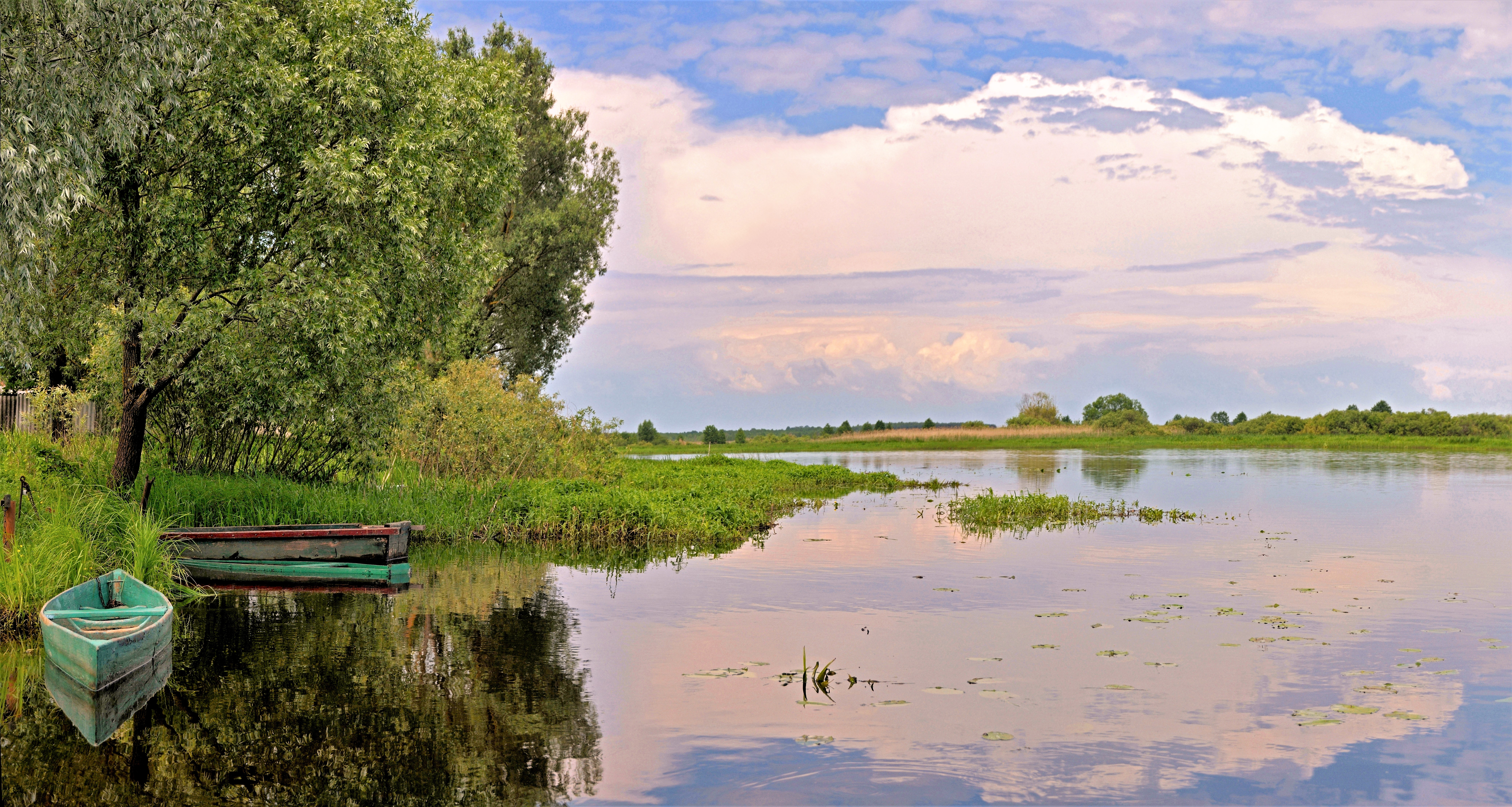 The bank of the river Iput at Dobrush, Belarus